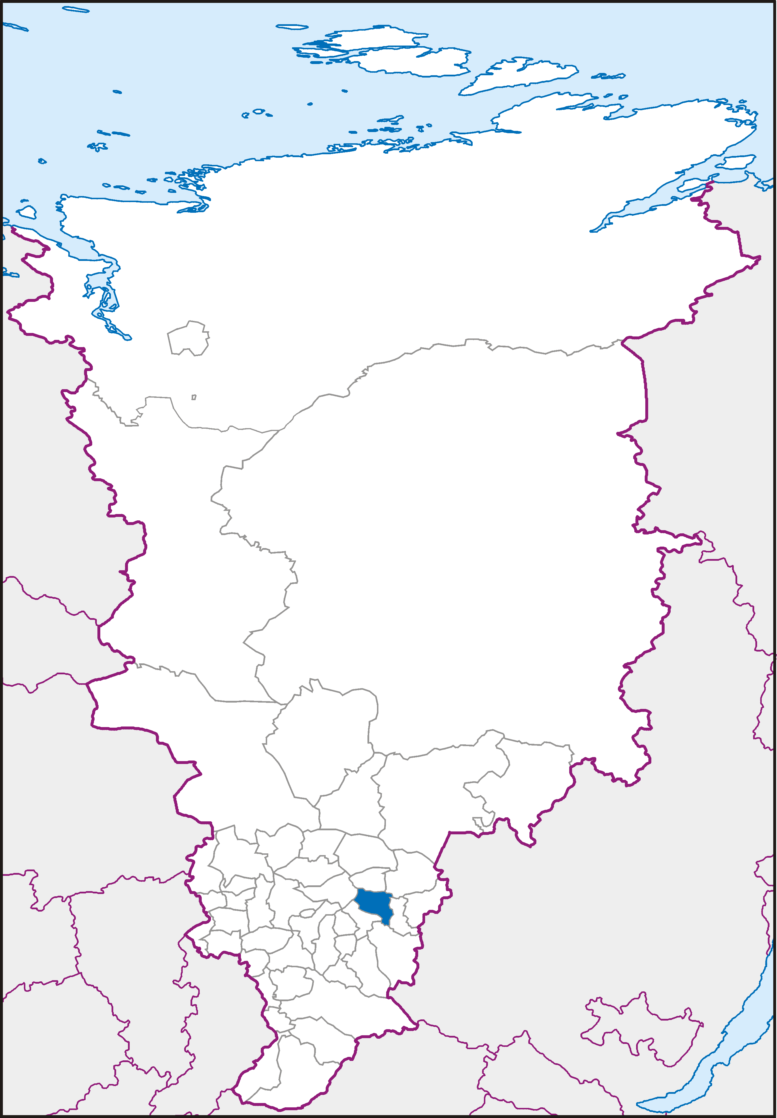 Map of Krasnoyarsk Krai in Albers Equal-Area Conic projection (Central Meridian = 95° E)